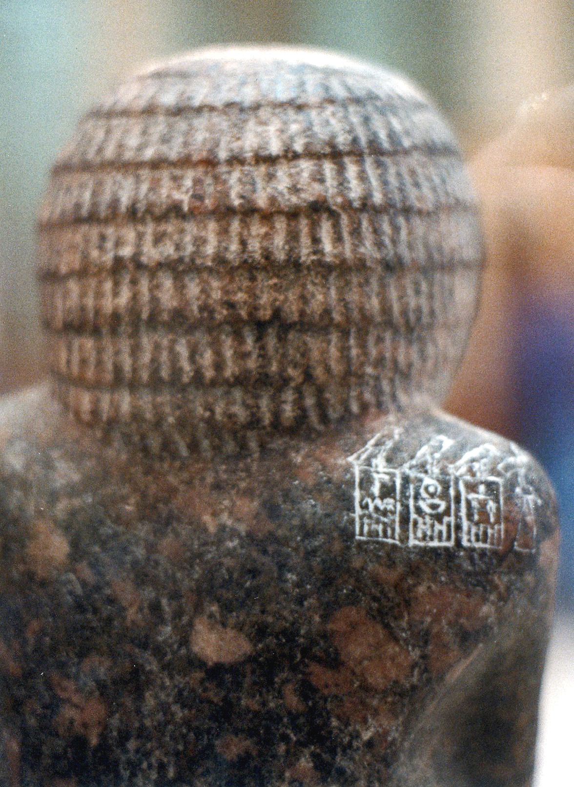 Detail of a statue of Hetepedief, priest of the mortuary cults of three sovereigns of the 2nd dynasty, whose serekh are given in chronological order: Hotepsekhemwy, Raneb and Nynetjer. Discovered in 1888 in Memphis, the statue is in speckled red granite. Dimensions: Height 39 cm, width 18 cm, thickness 20 cm. Conservation: Egyptian Museum, Cairo JE 34557 = CG 1 This statue is one of the earliest example we have of private Egyptian sculpture. His name and that of his own father, Mery Djehuty, are carved into the base of the statue. See: Borchardt, Statuen und Statuetten (CG) I, p. 1-3 pl. 1.